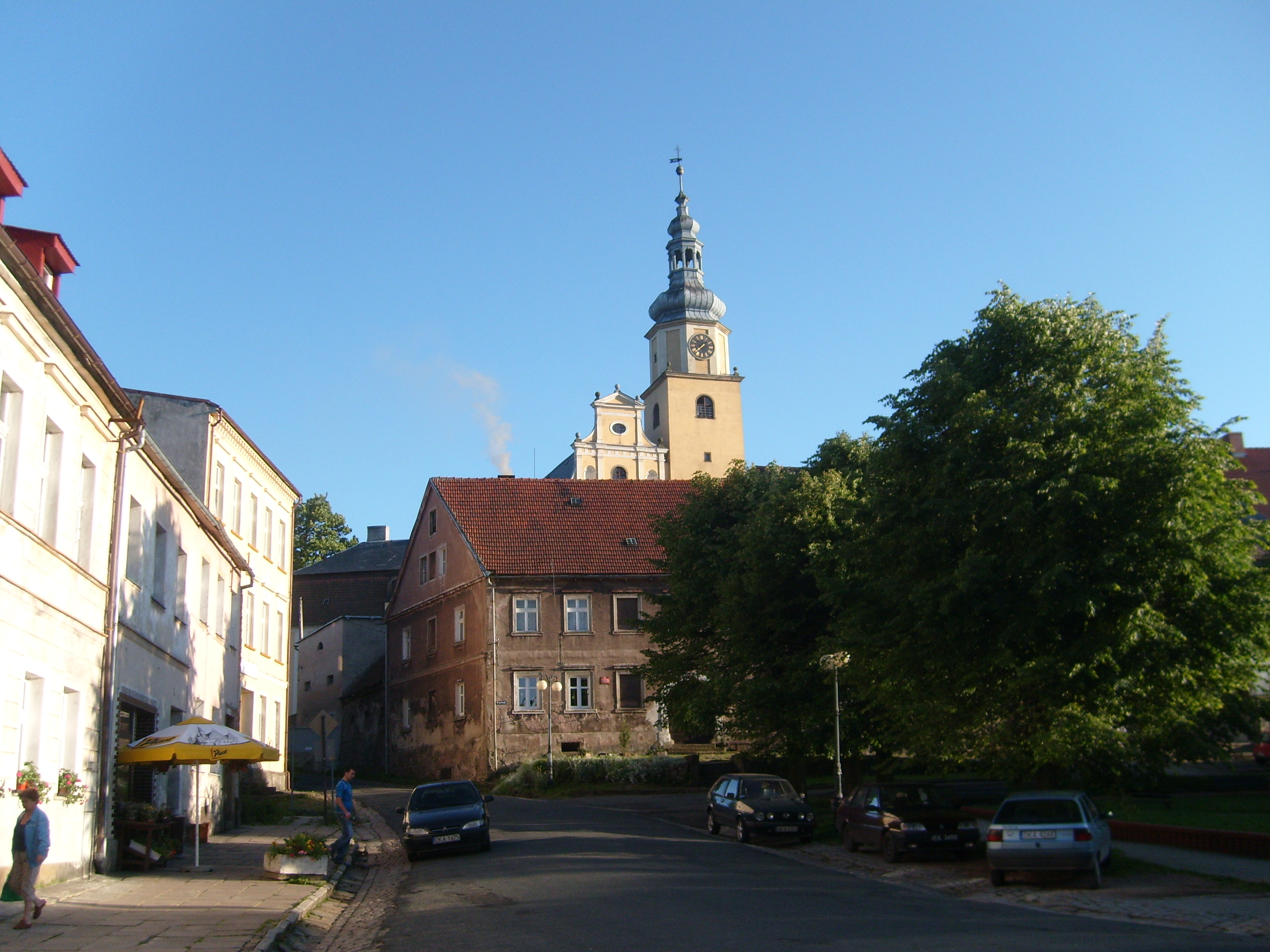 Chelmsko Slaskie - square Česky: Chelmsko Slaskie - namesti